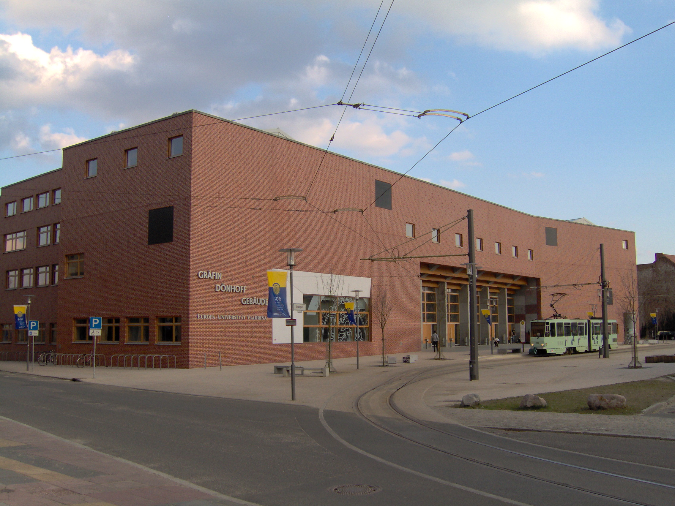 The Marion Dönhoff building at Viadrina European University in Frankfurt (Oder).